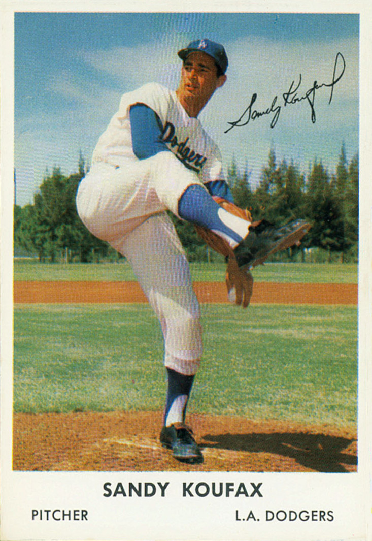 1962 Bell Brand Dodgers #32 Sandy Koufax